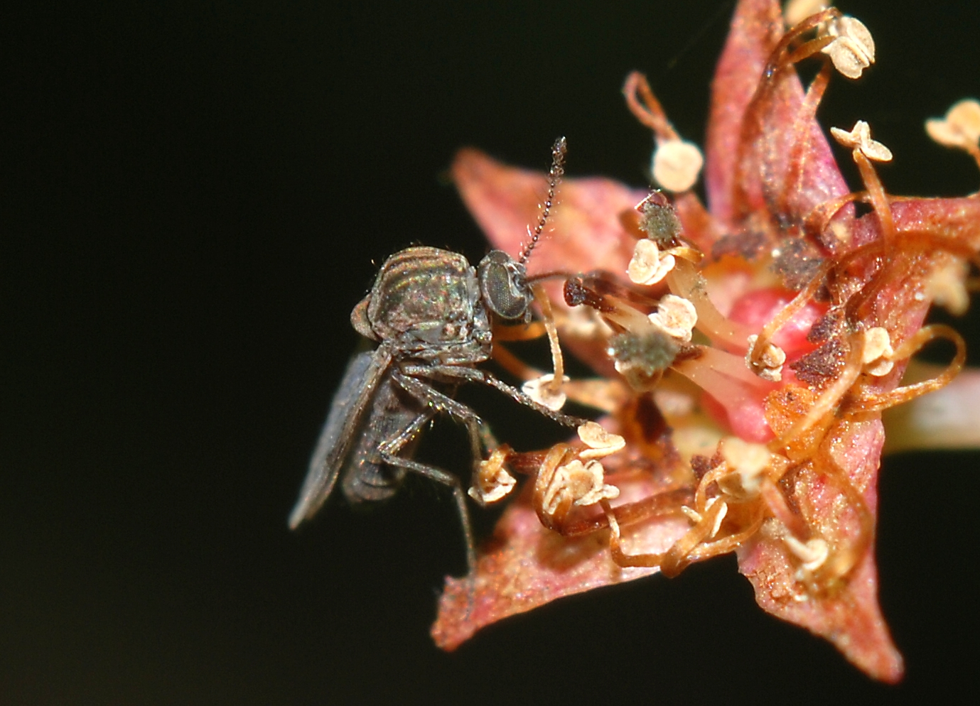 A Biting Midge or Punky (Ceratopogonidae family)